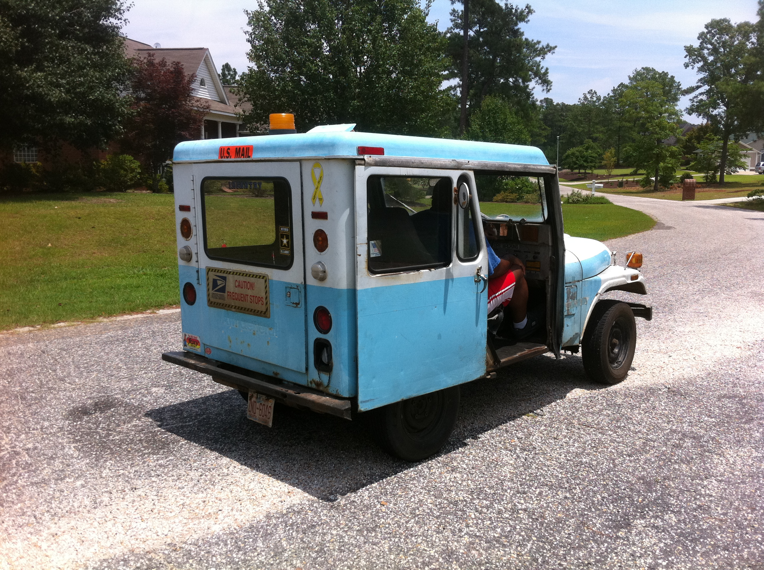 1983 Jeep DJ working delivering U.S. mail in 2011. Makings its regular rounds in North Carolina.